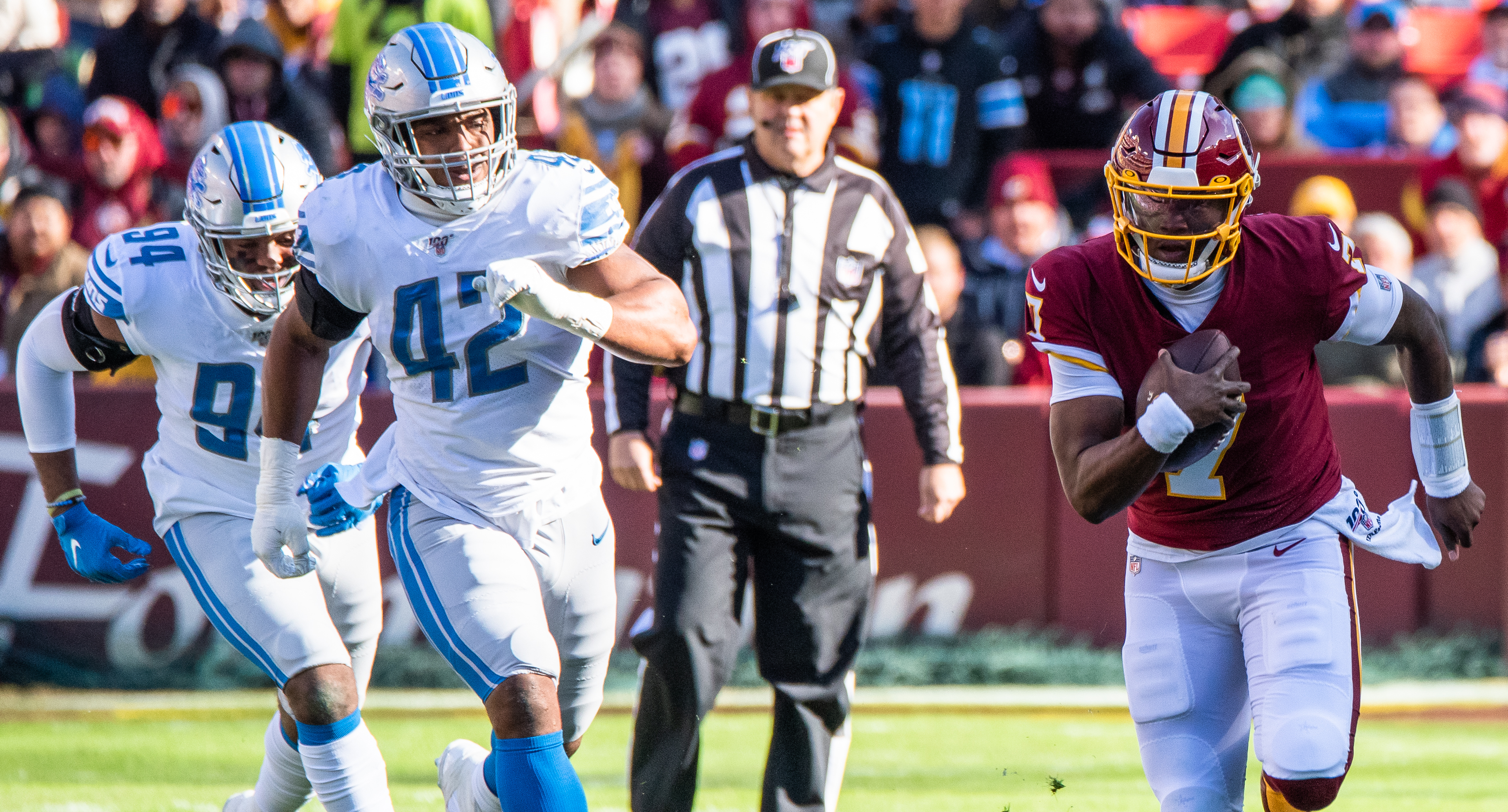 In 2019